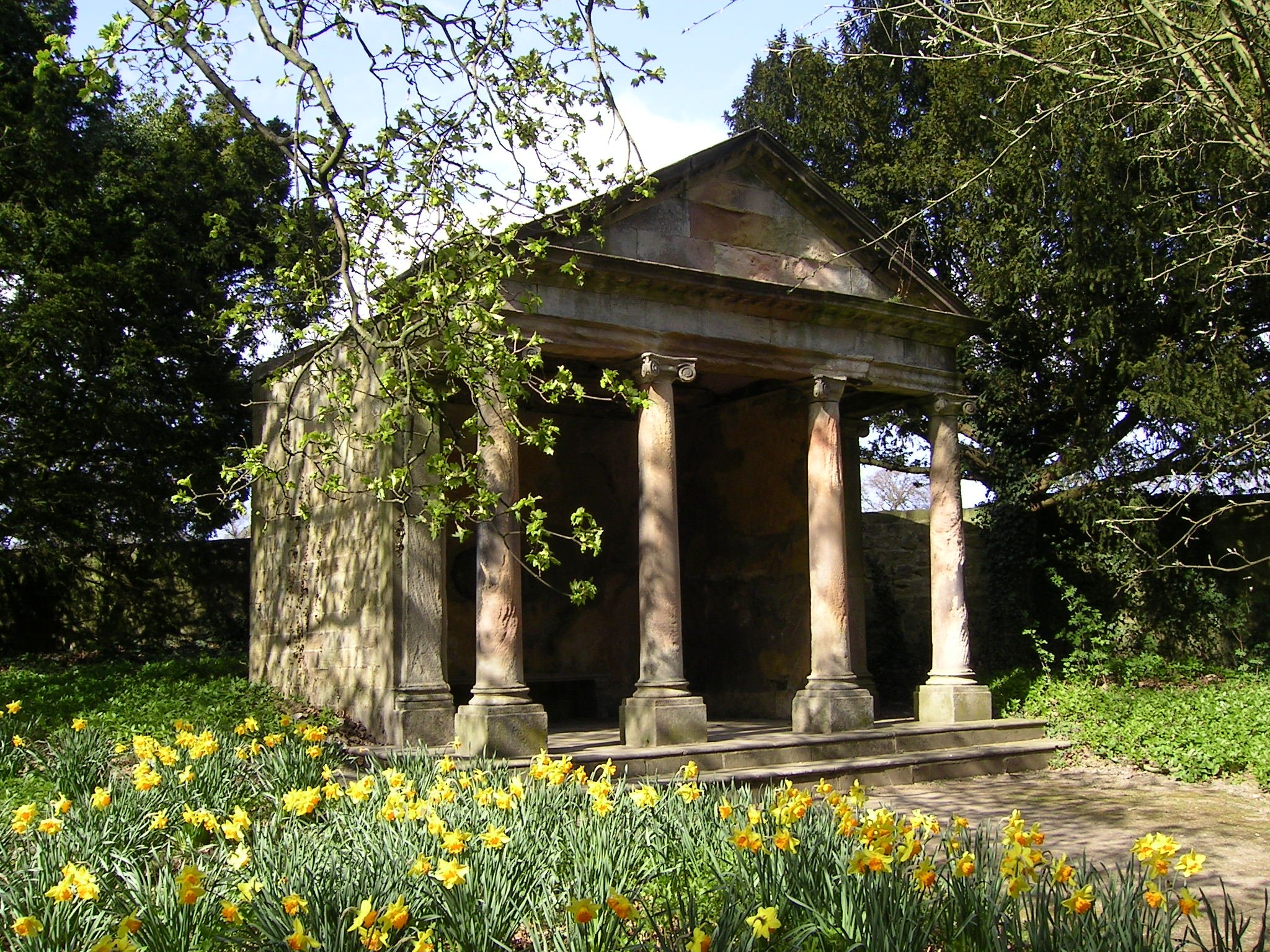 Temple in Ripley Castle grounds